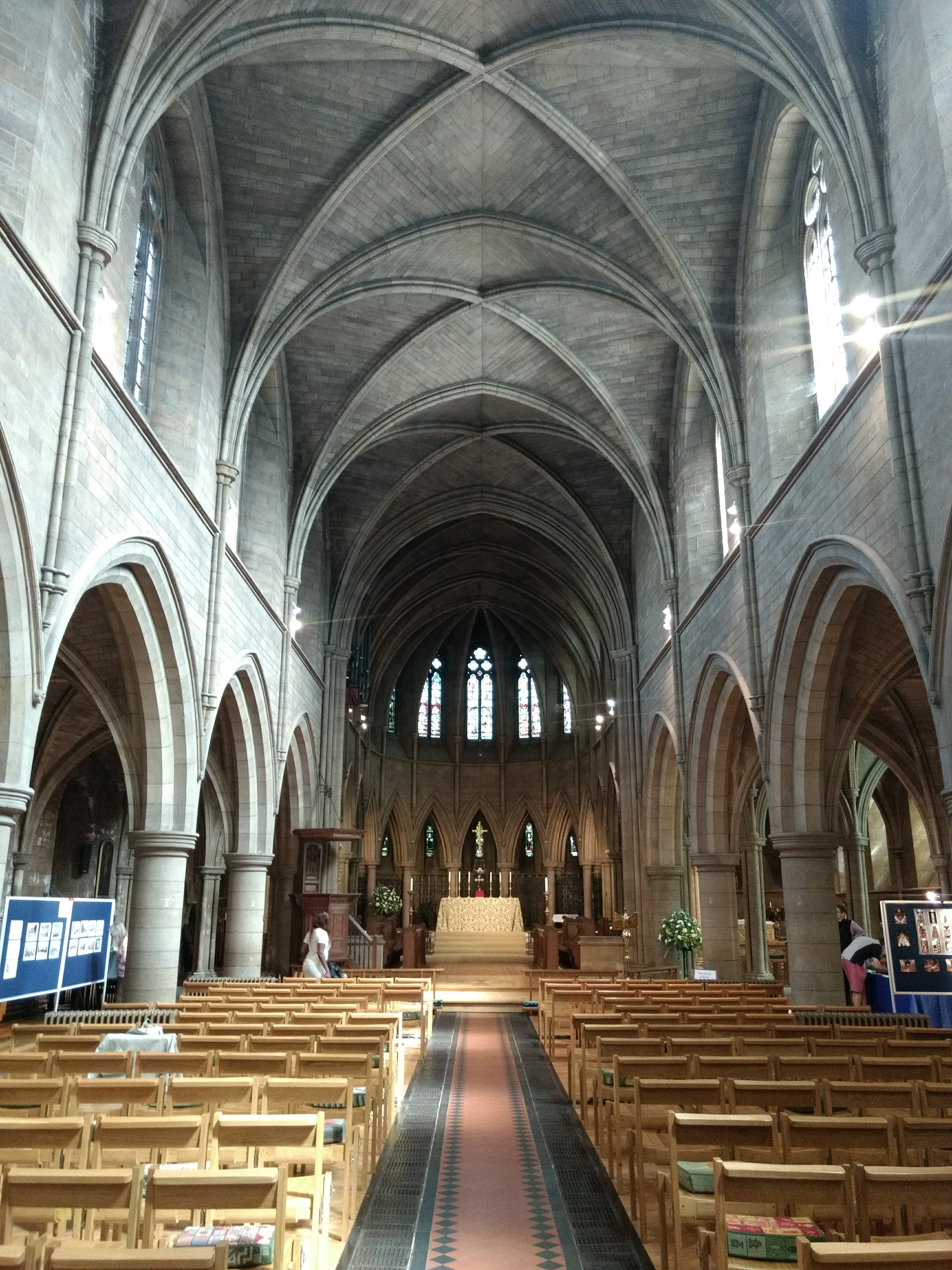 St John the Evangelist, Friern Barnet open day 8 July 2017